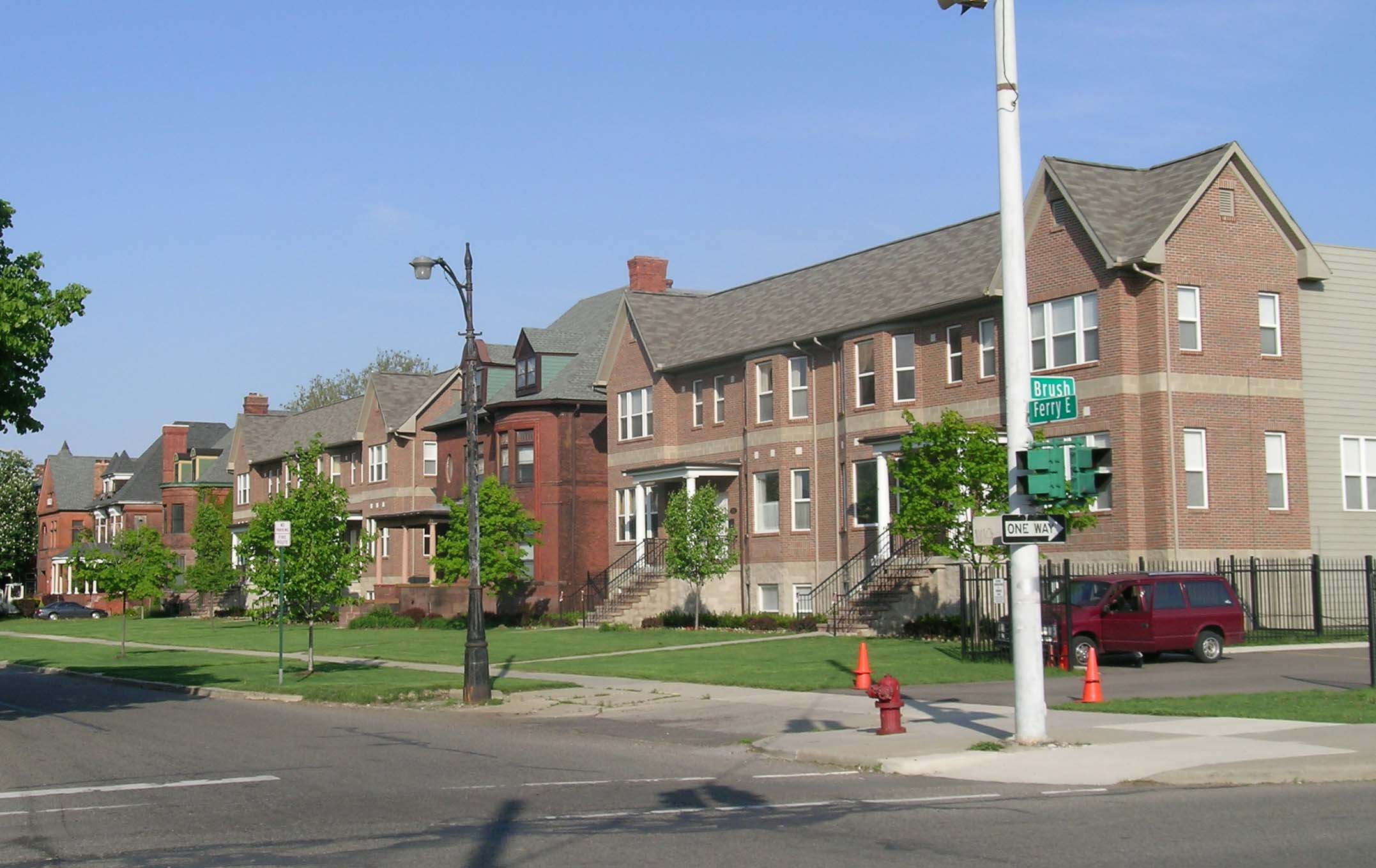 Contemporary houses interspersed among historic houses in the East Ferry Avenue Historic District, Detroit, Michigan, United States.